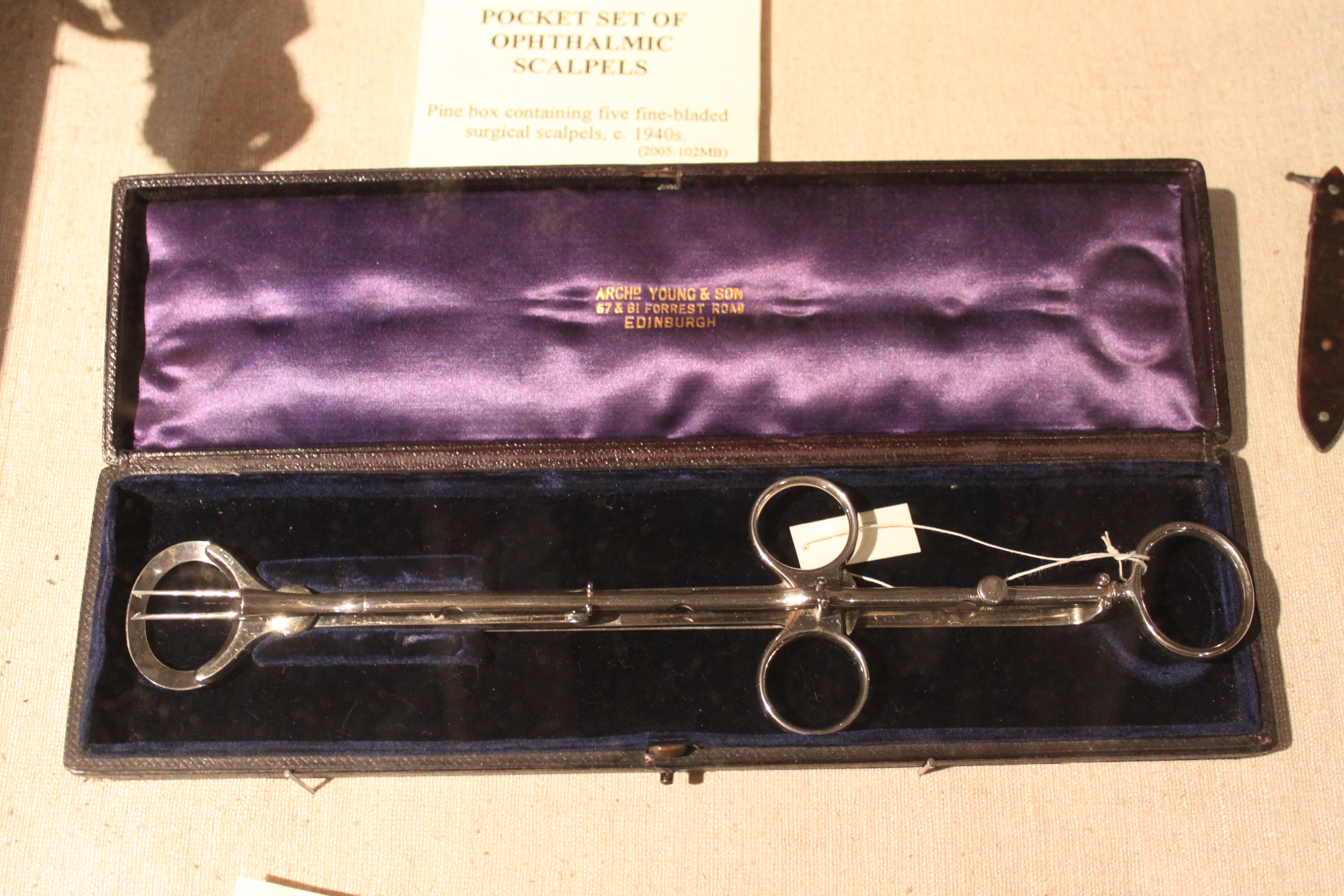 Chrome-plated tonsil guillotine in crimson leather case with catch and purple silk and velvet lining. Gold lettering on inside of case reads "Archd Young & Son, 57 & 61 Forrest Road, Edinburgh". Guillotine is of"Mathieu" type (Simon Chaplin, RCS Eng). Accessioned with scalpel 2005:013 inside box. Collection ID: 2005:015 This photo was taken as part of Britain Loves Wikipedia in February 2010 by Jenny O'Donnell.